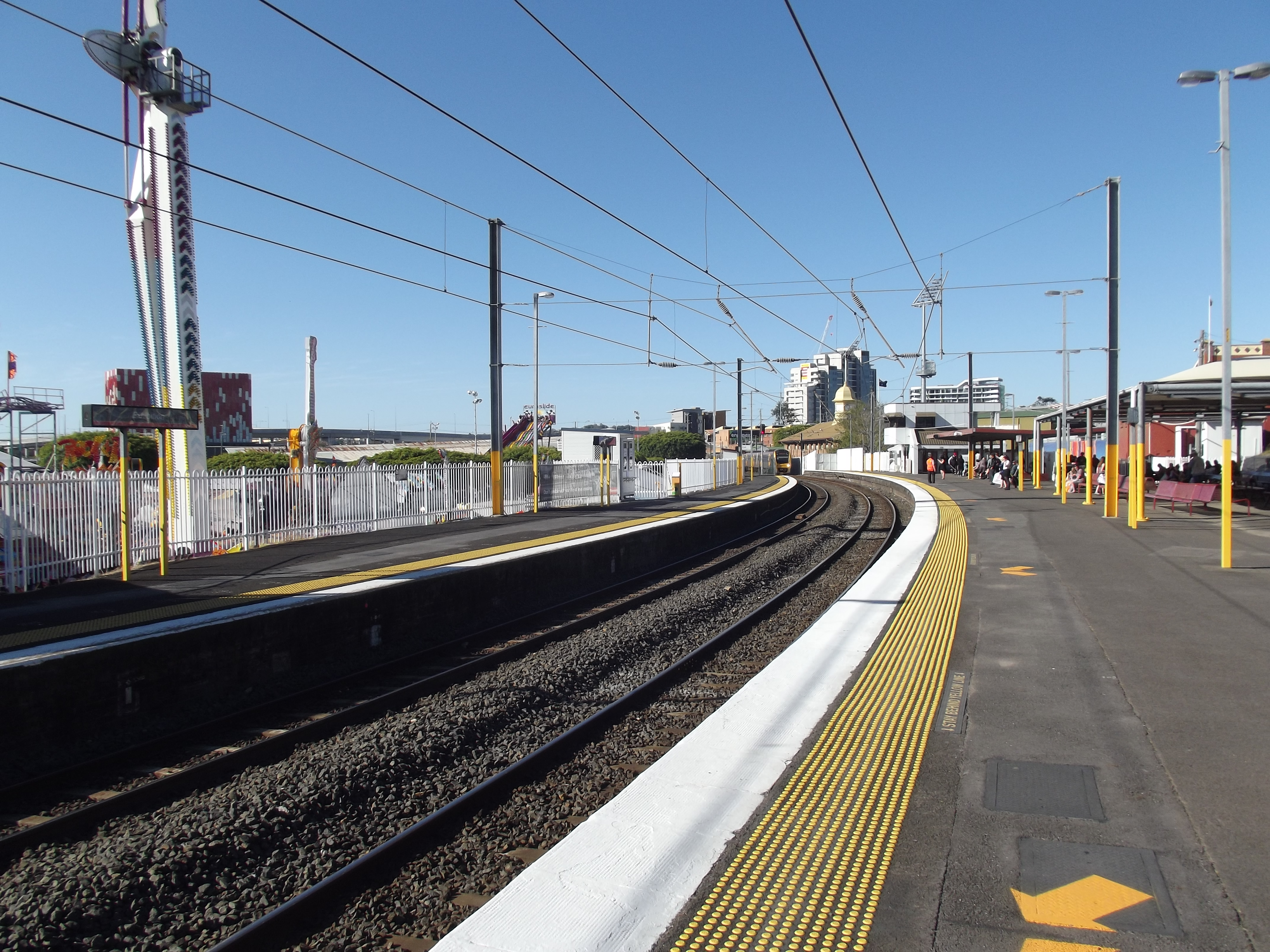 Exhibition station located at the Brisbane RNA showgrounds.